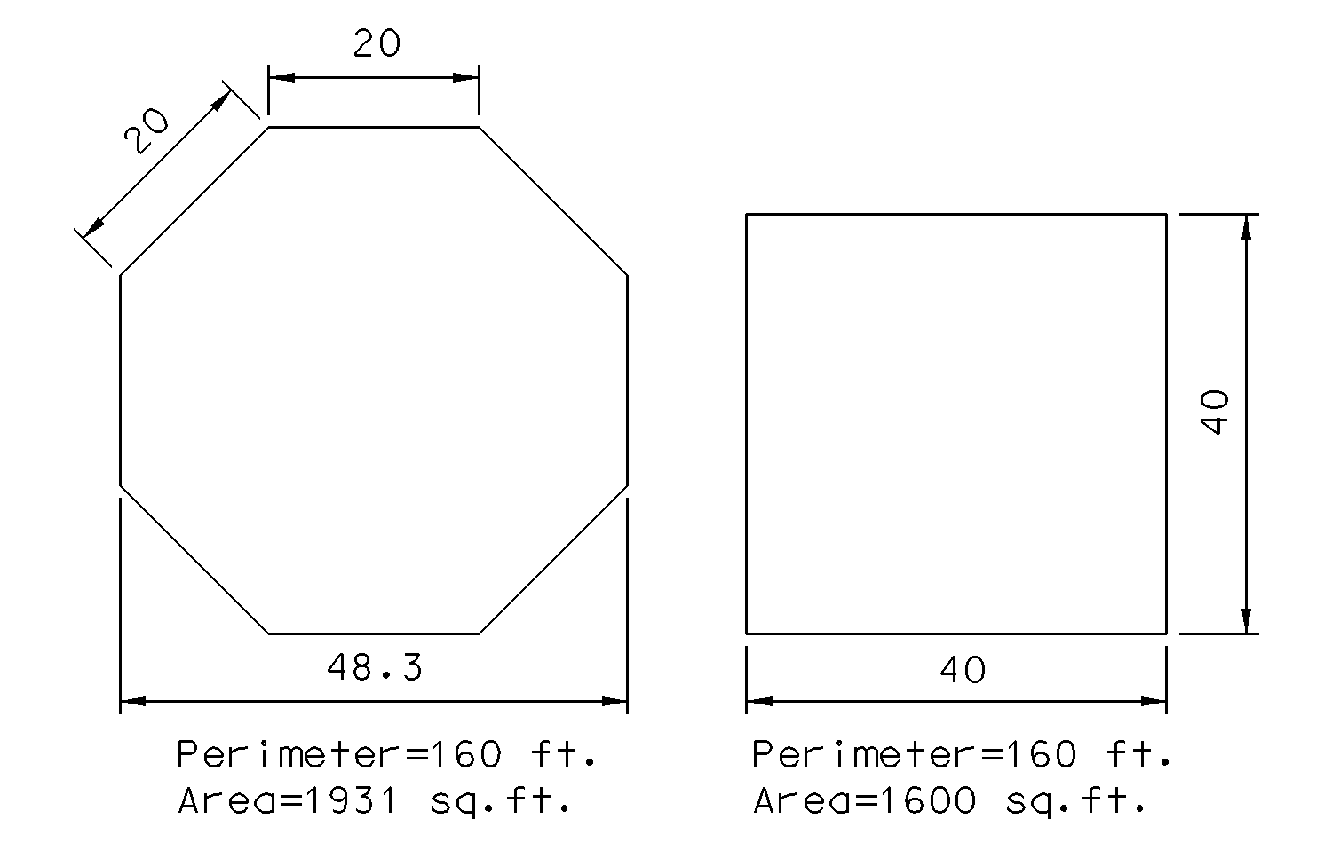 Comparison between the area enclosed by a square, and an octagon of the same perimeter. Used in the article Octagon House to illustrate the way an octagon encloses approximately 20% more space than a square, with walls of the same extent.